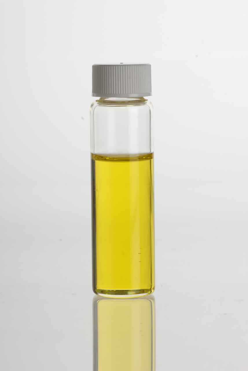 Wolfberry (Lycium barbarum) Seed Oil in clear glass vial